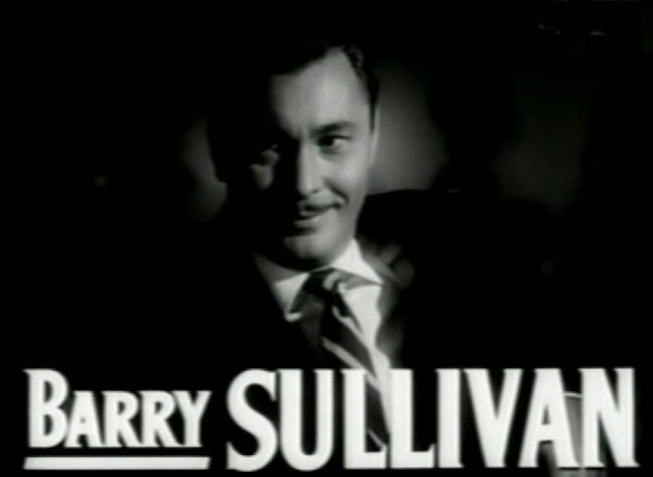 Cropped screenshot of Barry Sullivan from the trailer for the film The Bad and the Beautiful.